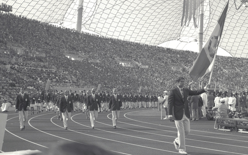 Romania at the 1972 Summer Olympics opening ceremony